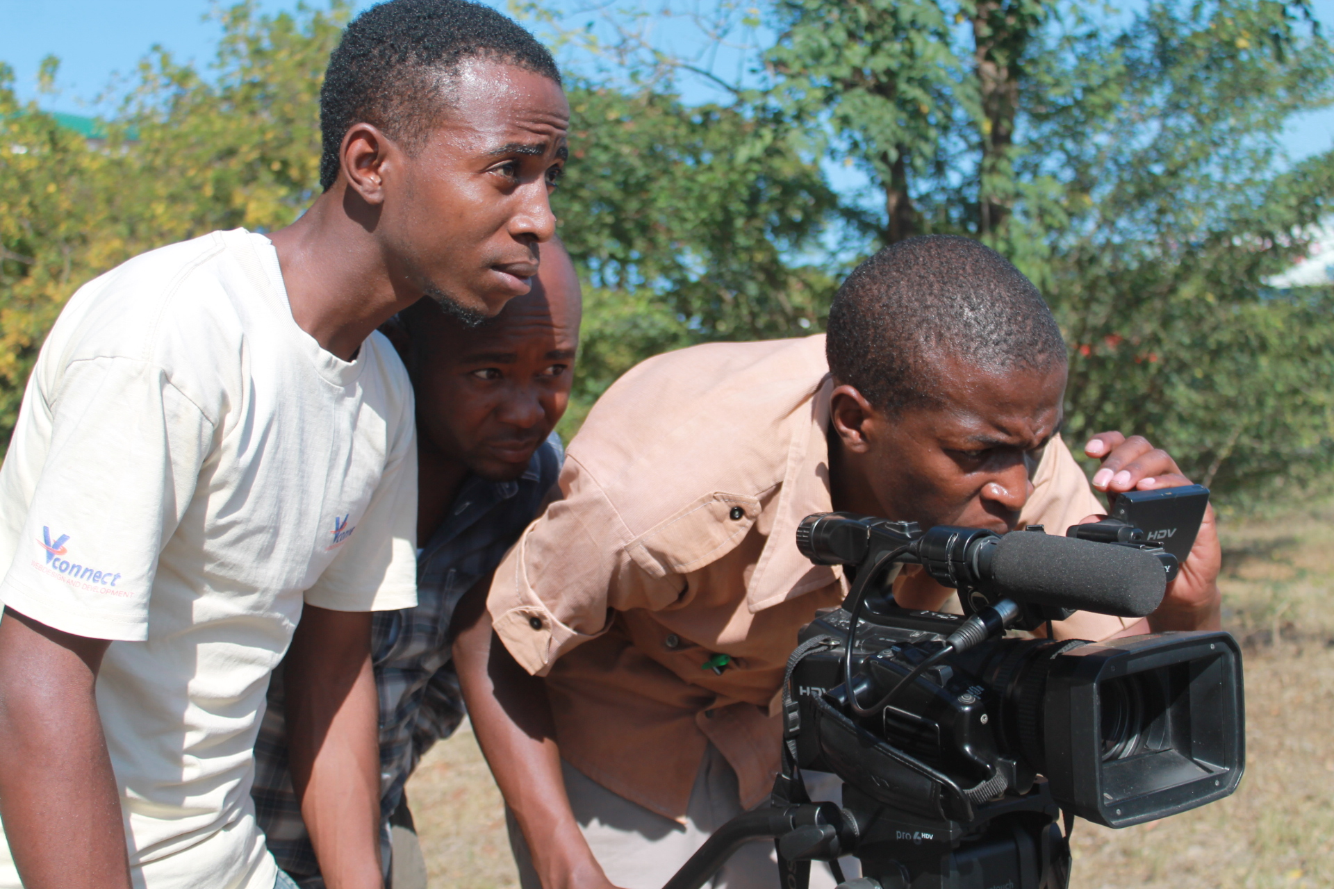 A film crew in Dar ES Salaam Tanzania This is an image of "African people at work" from Tanzania